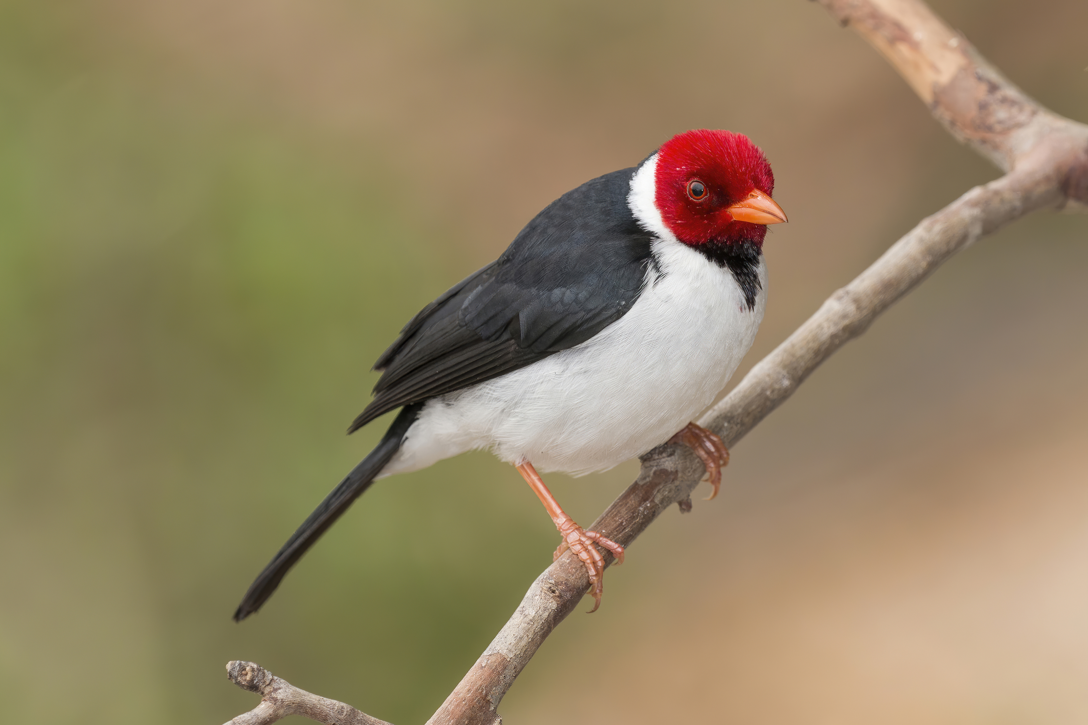 Yellow-billed cardinal (Paroaria capitata), the Pantanal, Brazil